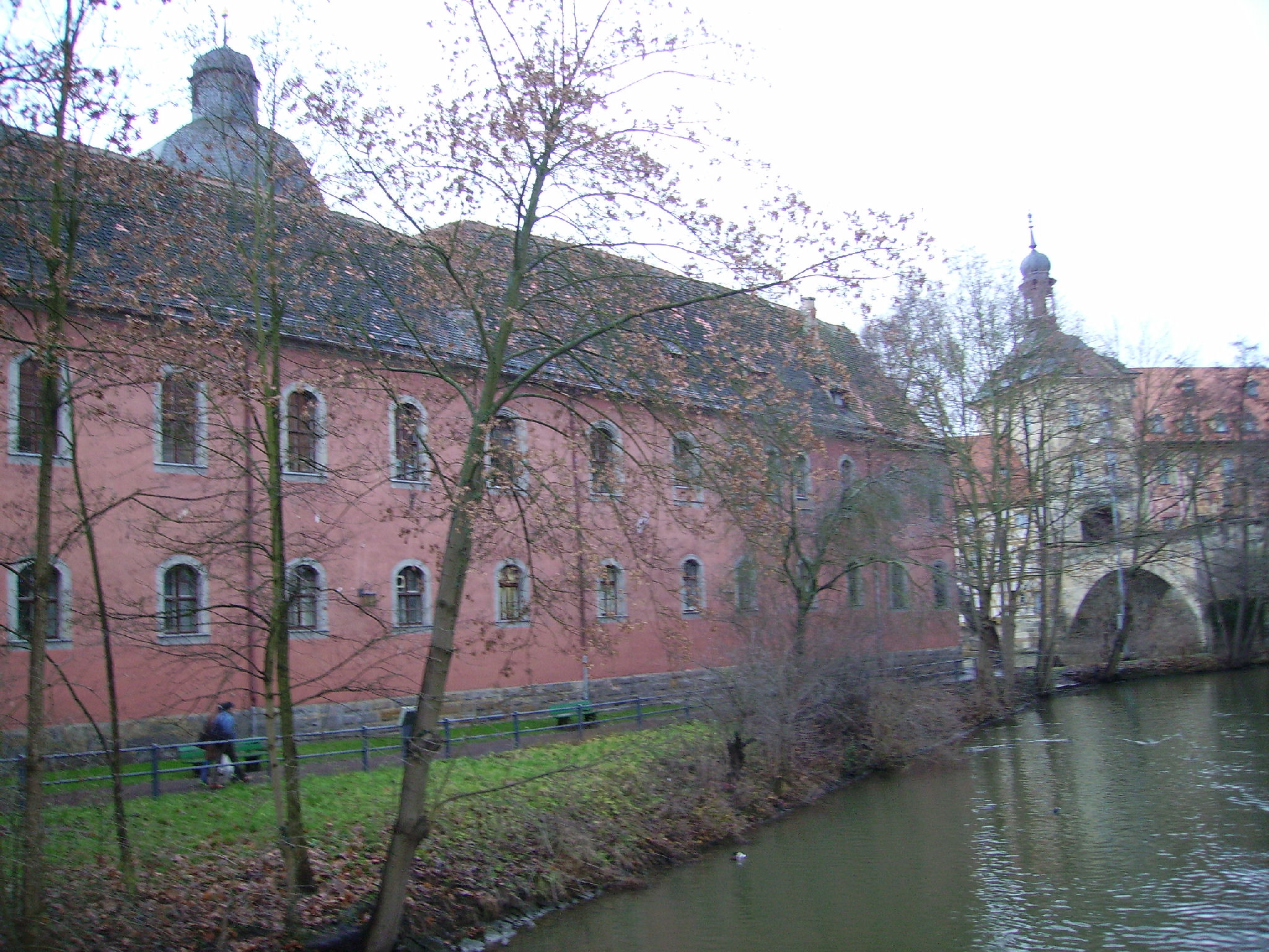 view of Bamberg, Germany